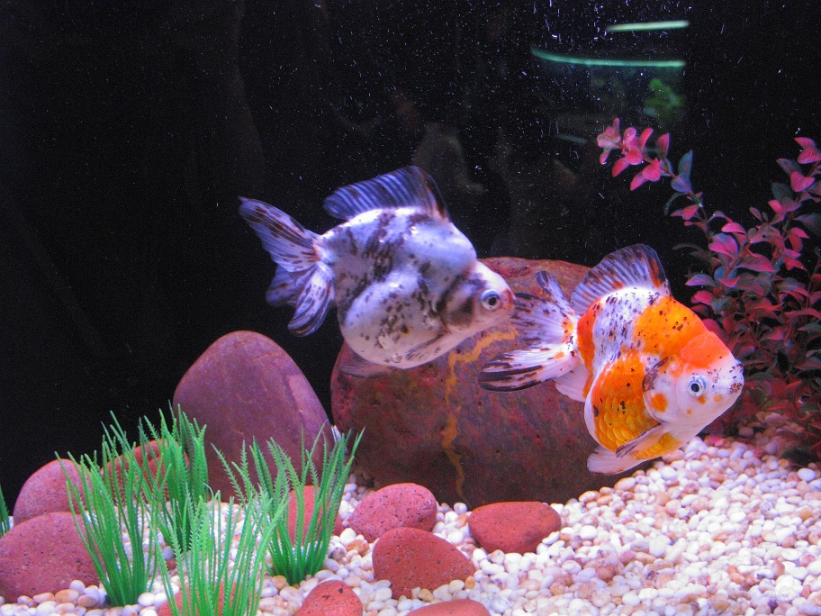 A pair of Ryukin